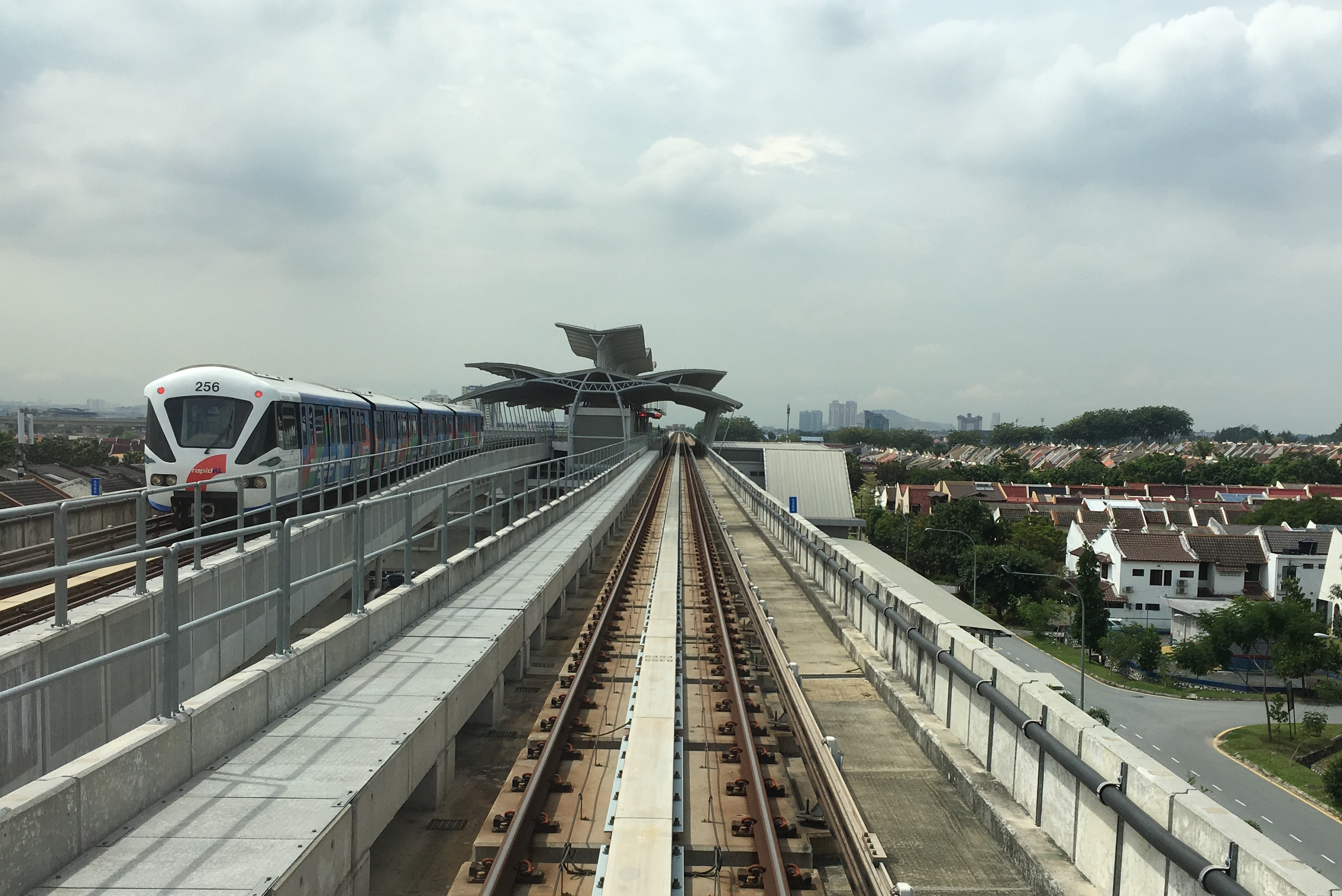 View of station from tracks